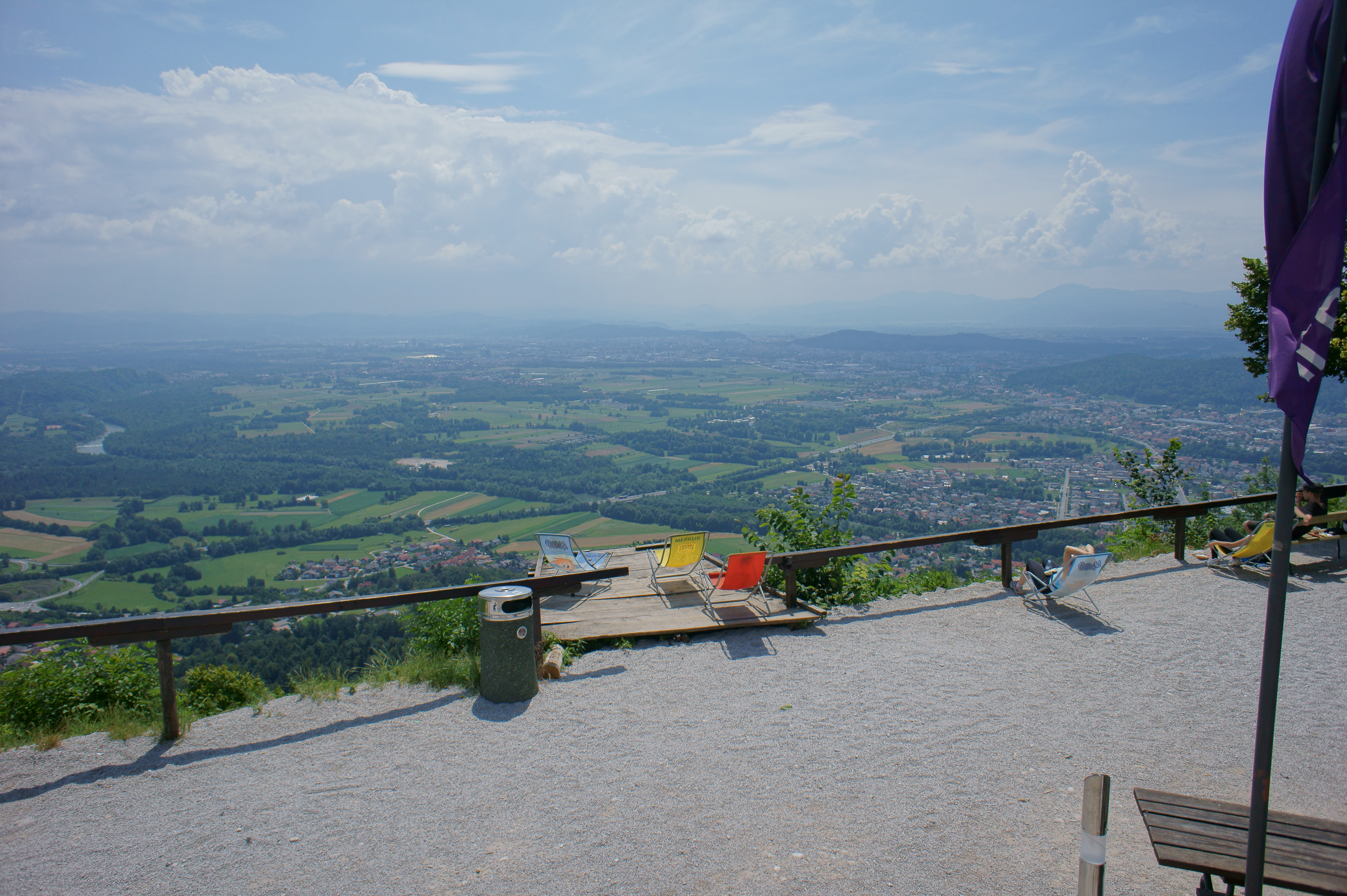 View on Ljubljana from Šmarna gora, Slovenia.